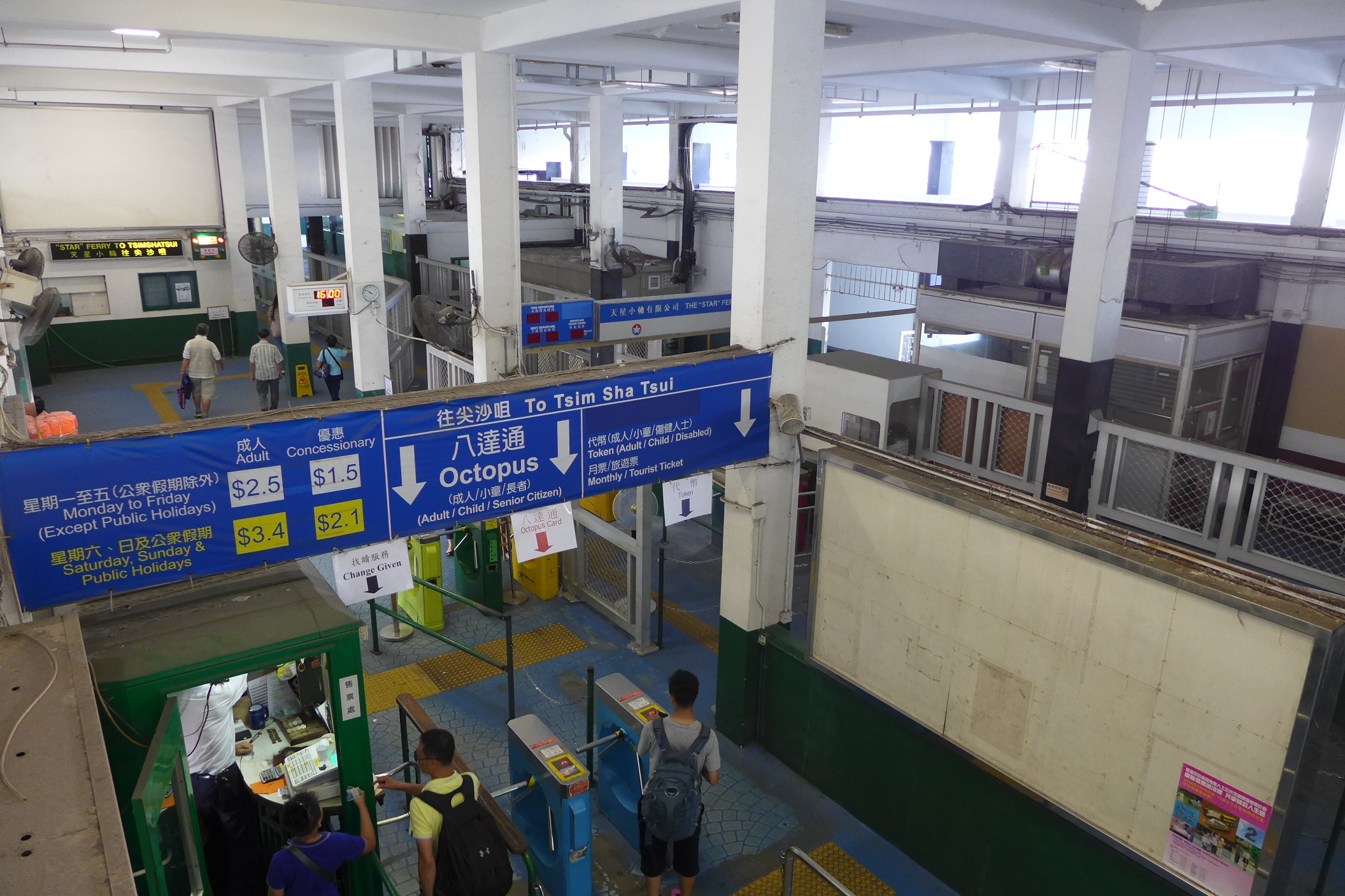 Wan Chai Pier Entrance Gate